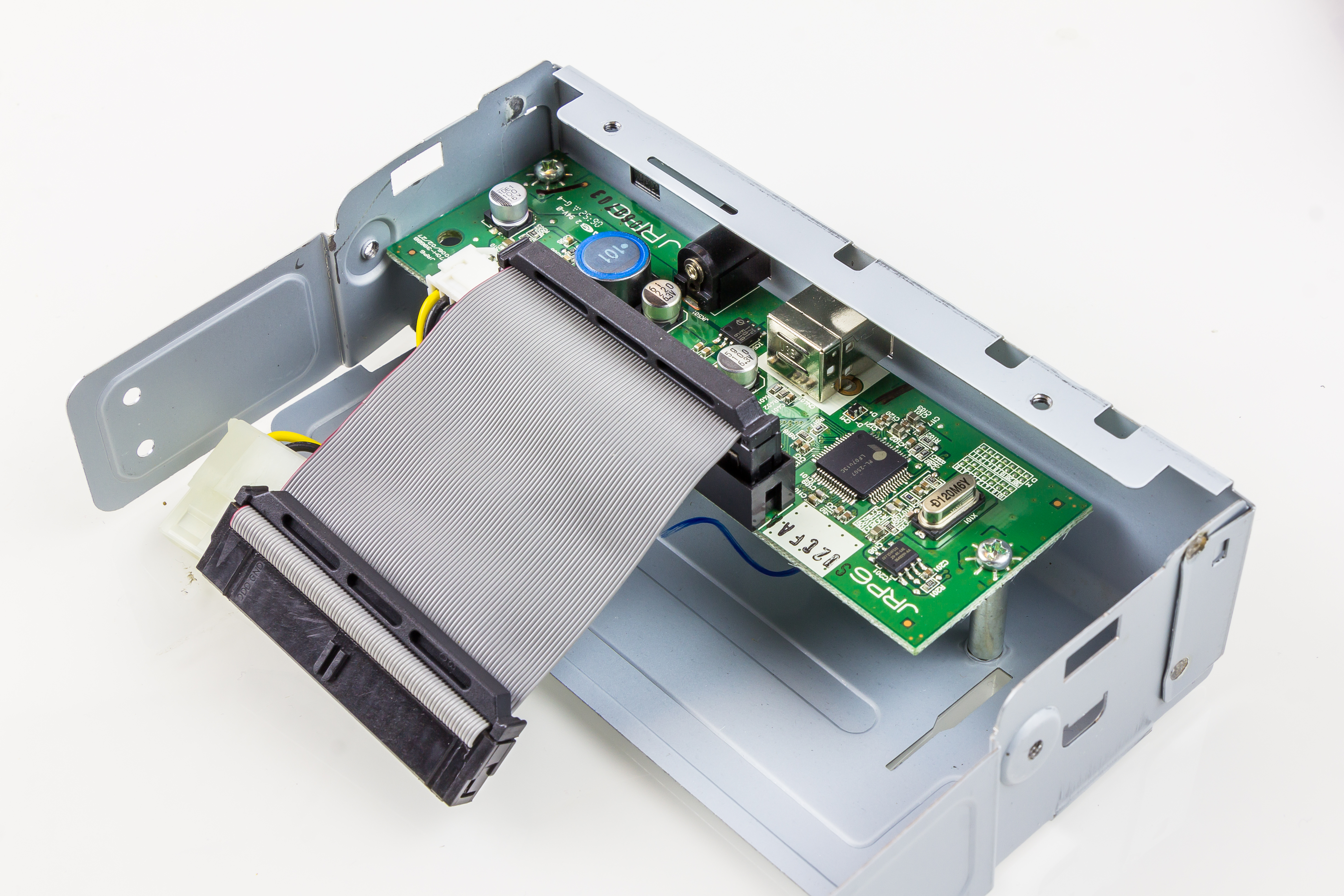 LG Super Multi GSA-E40N - PATA 2 USB Adapter